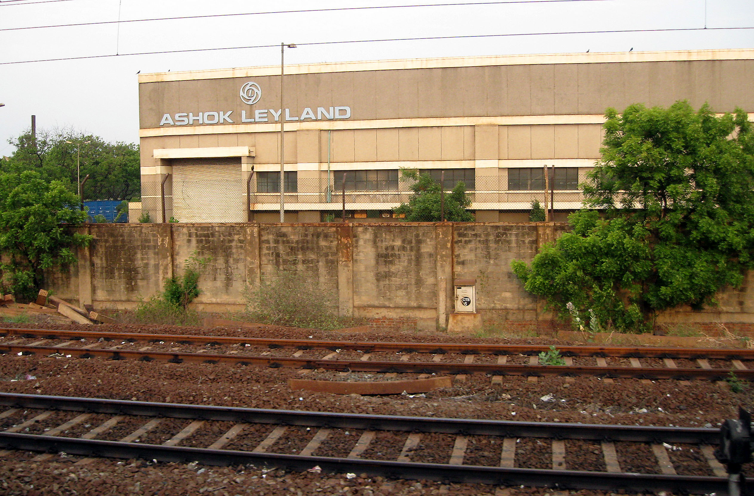 Ashok Leyland factory in Chennai